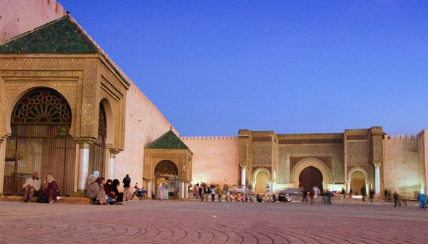 Bab Mansour seen from El Hedime Place at the heart of the medina in Meknes